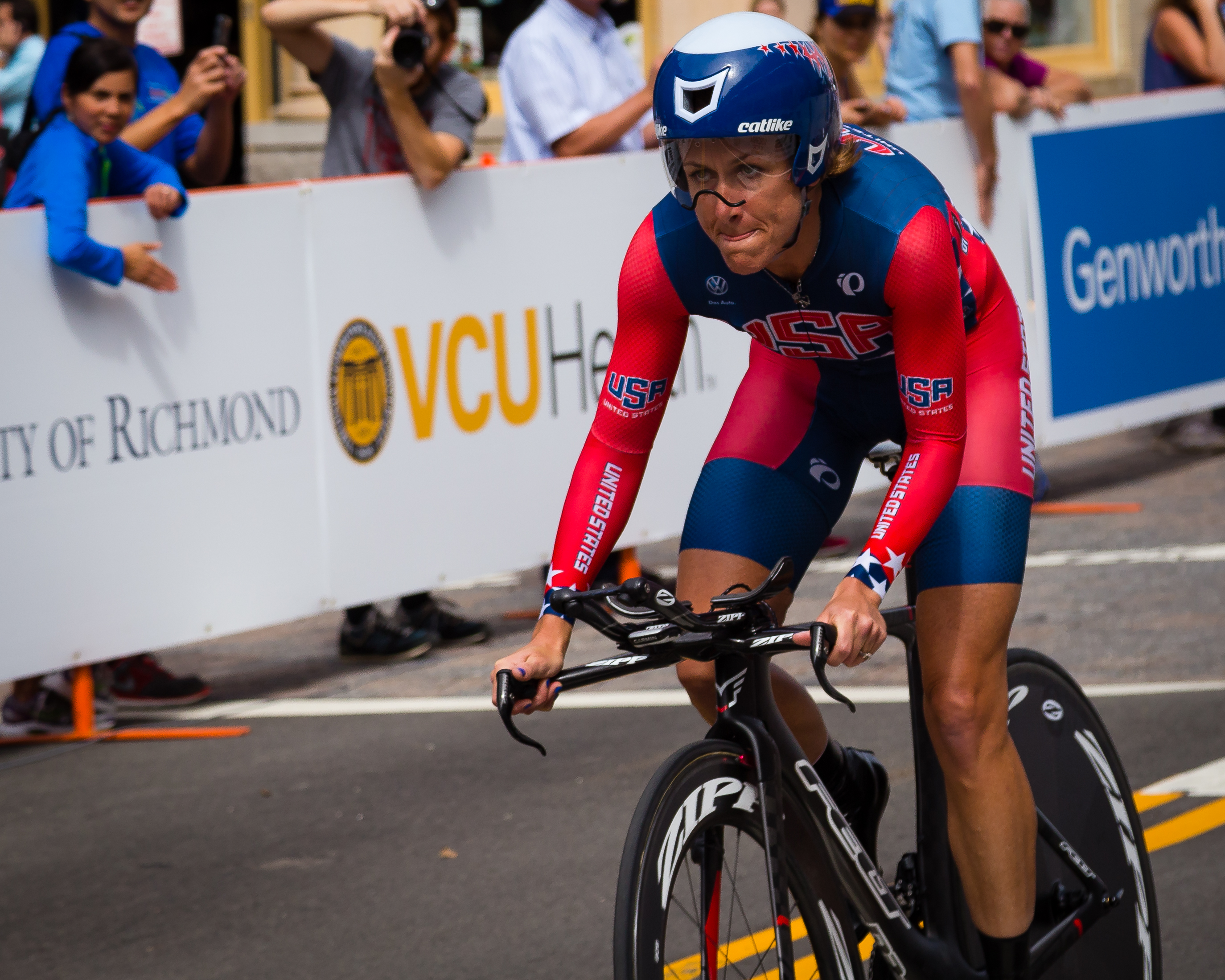 UCI Road World Championships 2015, Richmond, VA #UCI2015 2015 UCI Road World Championships, in Richmond, United States